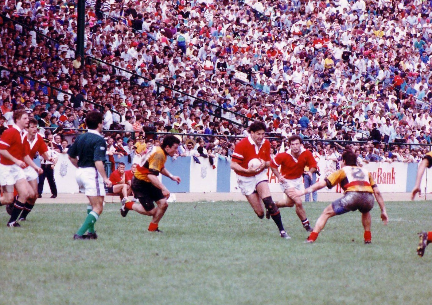 Tony Ridnell in the open field at the Hong Kong 7s